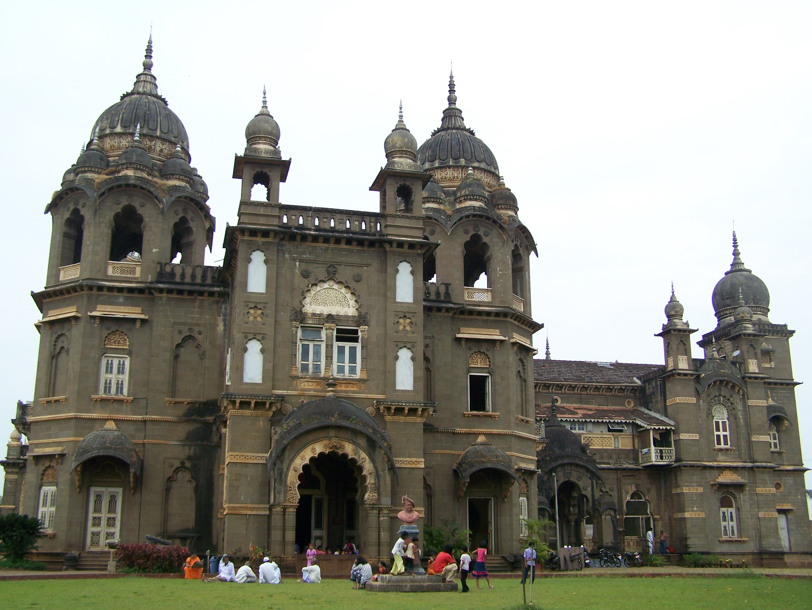 The Kolhapur New Palace. Home to the living descendants of Chatrapati Shahu Maharaj. The Ground Floor has been converted into a Museum. The Museum displays furniture, weapons, clothing used during the regime and by His Highness Shri Chhatrapati Shahu Maharaj himself. It also has photographs depicting his life right from his childhood to being a young hunter to a social reformer.